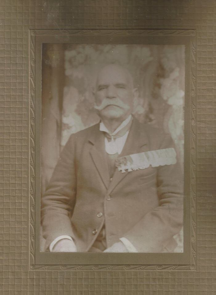 Angel Gerchev